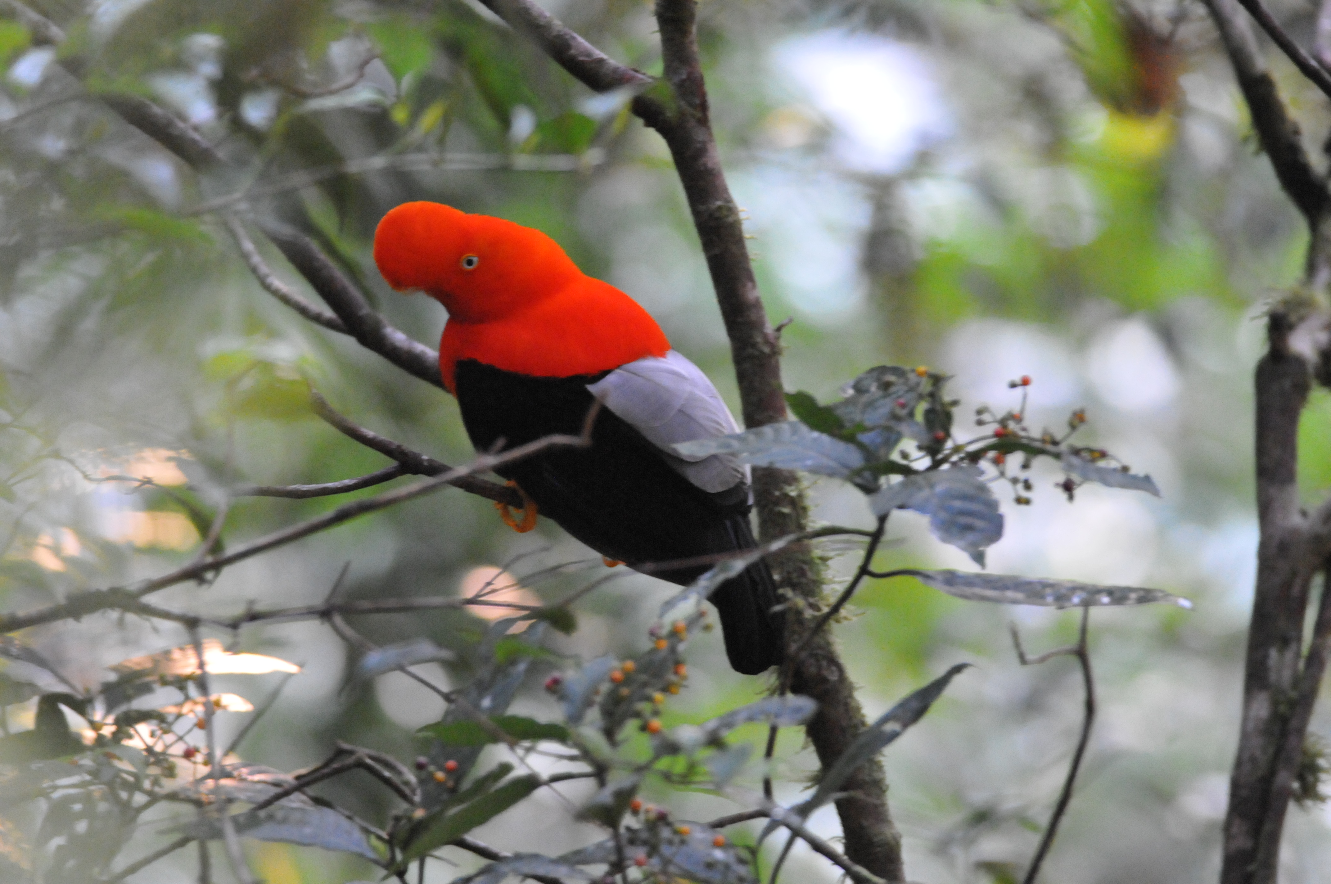 Cock of the rock, cloudforest of Manu, Peru